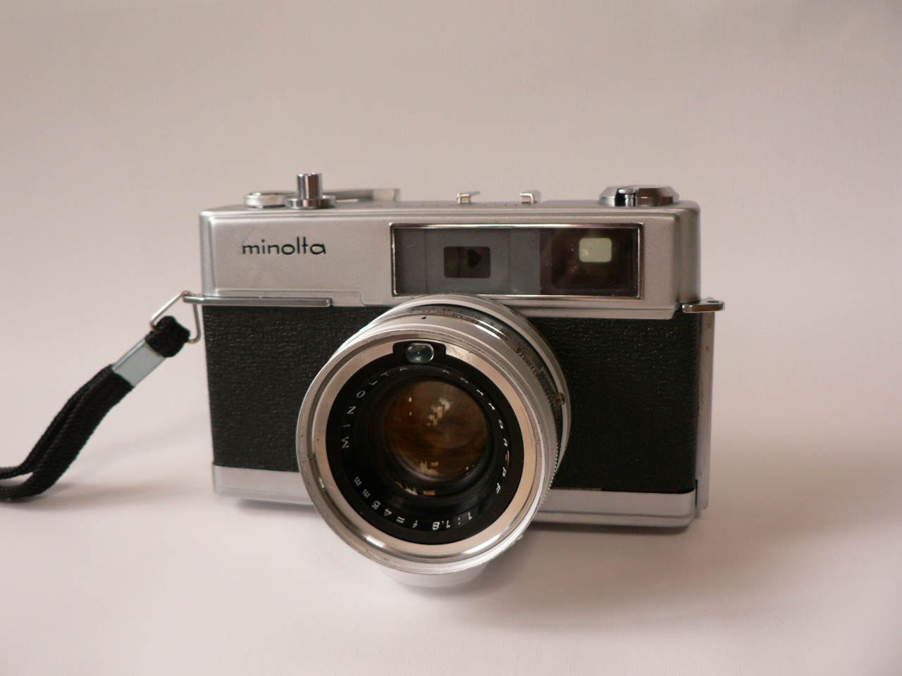 Minolta Hi-Matic 7. Bought off eBay for about $5. It had an advance lever that wouldn't snap back. I bought it so I could give the case to a friend who has a nice HiMatic 7. It took a day to fix the advance lever.